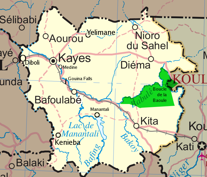 Map of the Kayes Region of Mali. Additions include new northern road via Diema, several towns, downgrade of road (in fact unpaved) from Kayes to Kenieba. Solid pink lines are paved, dashed are unpaved. Addition of National park of Boucle du Baoule. Ref: Ross Velton. Mali. Bradt UK and Globe Pequot US (2005/2006) ISBN 9781841620770 Made with GIMP